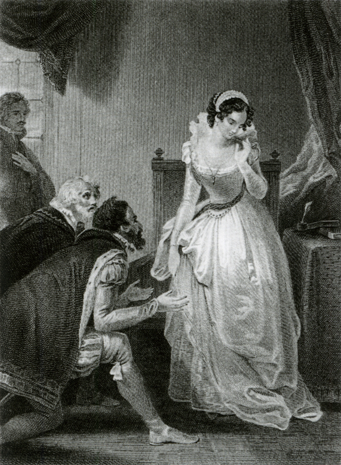 This image is a JPEG version of the original PNG image at File: Lady Jane Grey after Robert Smirke.png. Generally, this JPEG version should be used when displaying the file from Commons, in order to reduce the file size of thumbnail images. However, any edits to the image should be based on the original PNG version in order to prevent generation loss, and both versions should be updated. Do not make edits based on this version. See here for more information. Lady Jane Grey, 1537-53. Engraving by H.K. Bourne after R. Smirke, RA. 15.3 x 11.5cm (6 x 4 1/2"). National Portrait Gallery (RN25864). National Portrait Gallery: NPG D11270 While Commons policy accepts the use of this media, one or more third parties have made copyright claims against Wikimedia Commons in relation to the work from which this is sourced or a purely mechanical reproduction thereof. This may be due to recognition of the "sweat of the brow" doctrine, allowing works to be eligible for protection through skill and labour, and not purely by originality as is the case in the United States (where this website is hosted). These claims may or may not be valid in all jurisdictions. As such, use of this image in the jurisdiction of the claimant or other countries may be regarded as copyright infringement. Please see Commons:When to use the PD-Art tag for more information.See User:Dcoetzee/NPG legal threat for original threat and National Portrait Gallery and Wikimedia Foundation copyright dispute for more information. This tag does not indicate the copyright status of the attached work. A normal copyright tag is still required. See Commons:Licensing.